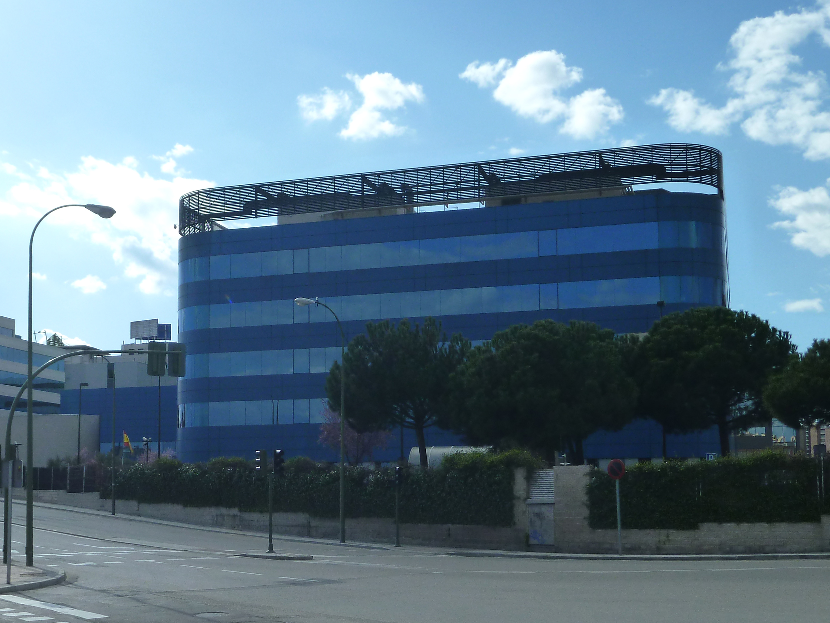 Façade of B.O.E.'s headquarters, at 54 Avenida de Manoteras (avenue) in Hortaleza district in Madrid.